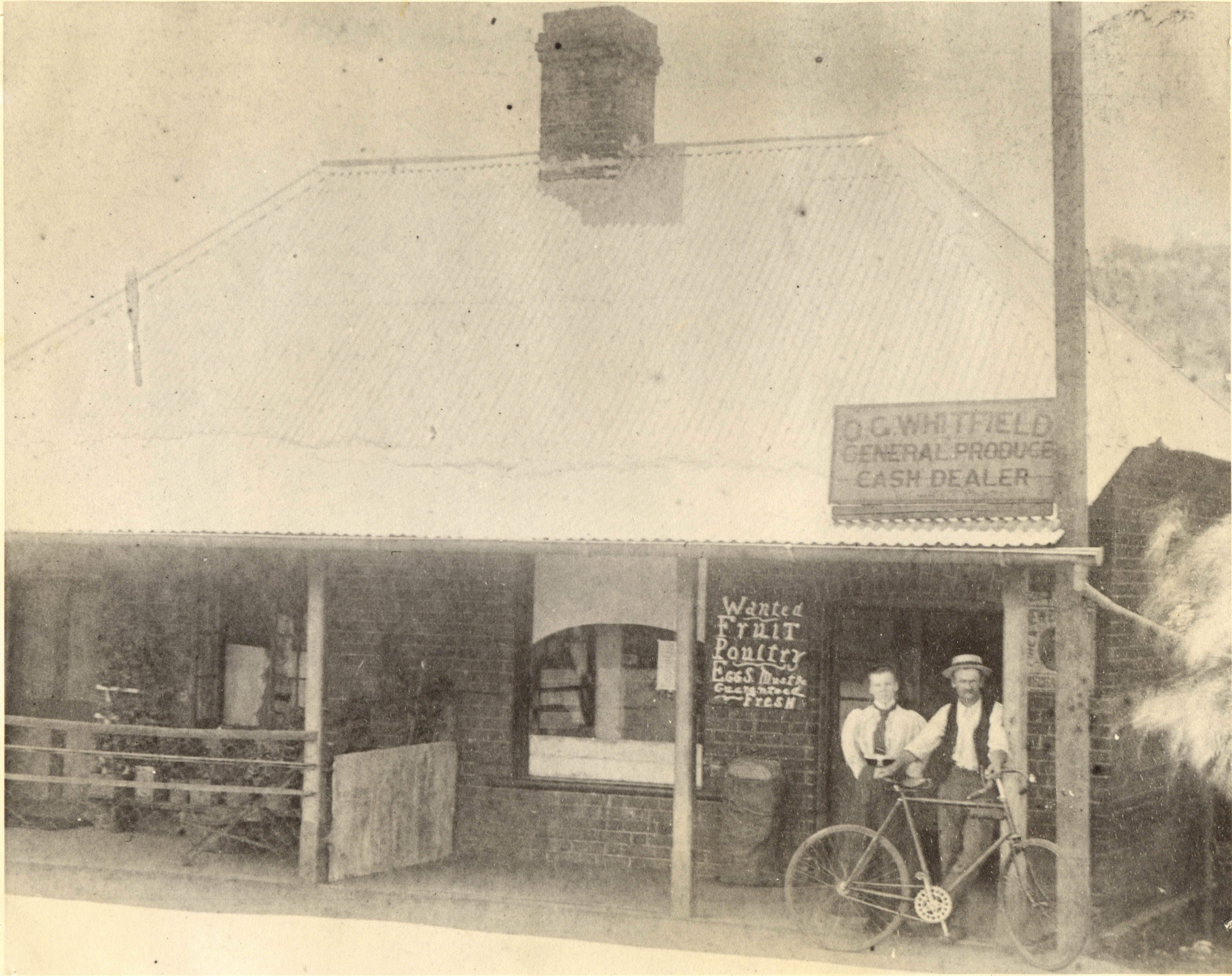 B&W photograph of Whitfields General Store; building appears to be divided into 'shop' & 'living quarters'; sign near the door reads "Wanted: fruit - poultry - eggs - must be guaranteed FRESH". Lady in long dark skirt and white long sleeved blouse with dark tie at the neck. Man has a shirt vest, hat and trousers on and is holding a bicycle. This half of the building since demolished and in 2015 is the site of Chemist shop, next to the Wendouree Tearooms in Toodyay, Western Australia.